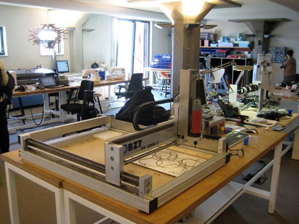 Photo of the Amsterdam FabLab at the Waag Society